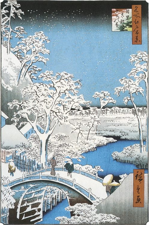 One Hundred Famous Views of Edo #111, "Drum Bridge and Sunset Hill at Meguro"